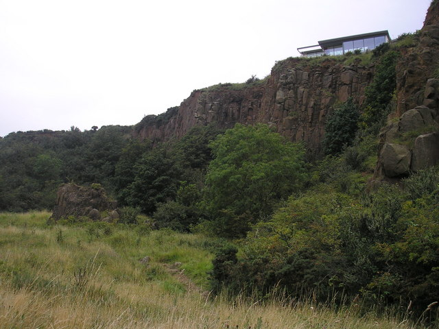 Carlingnose Point Old Quarry Quarrying was at full production in the 1800s